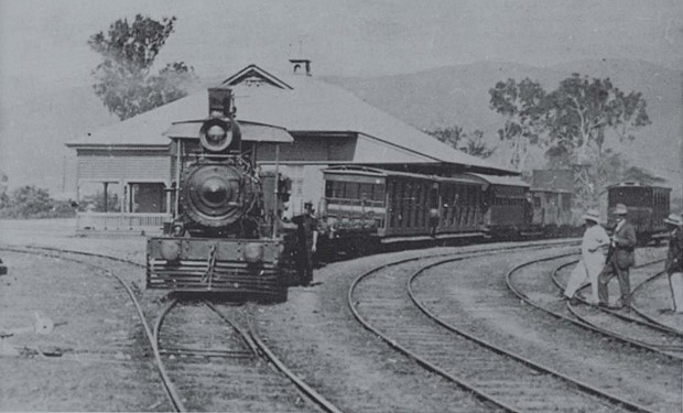 A remarkable achievement - The Cairns-Mulgrave tramway 1897-1911